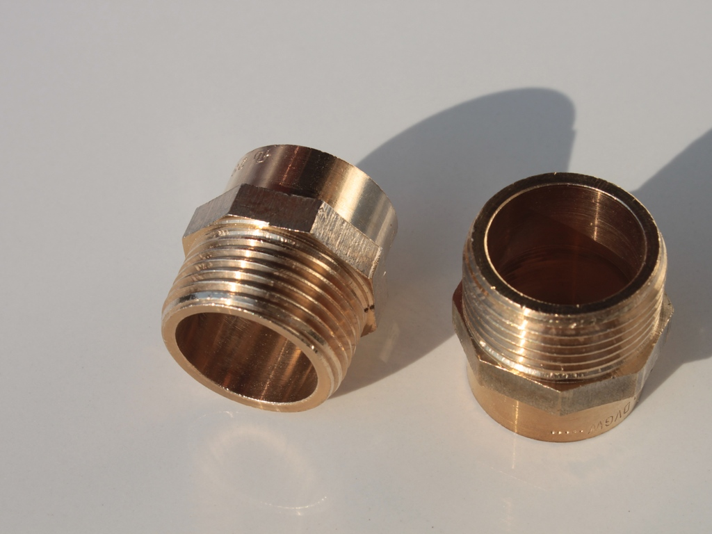 This photo shows two brass adapters for connecting copper sweat pipe to a female threaded socket.